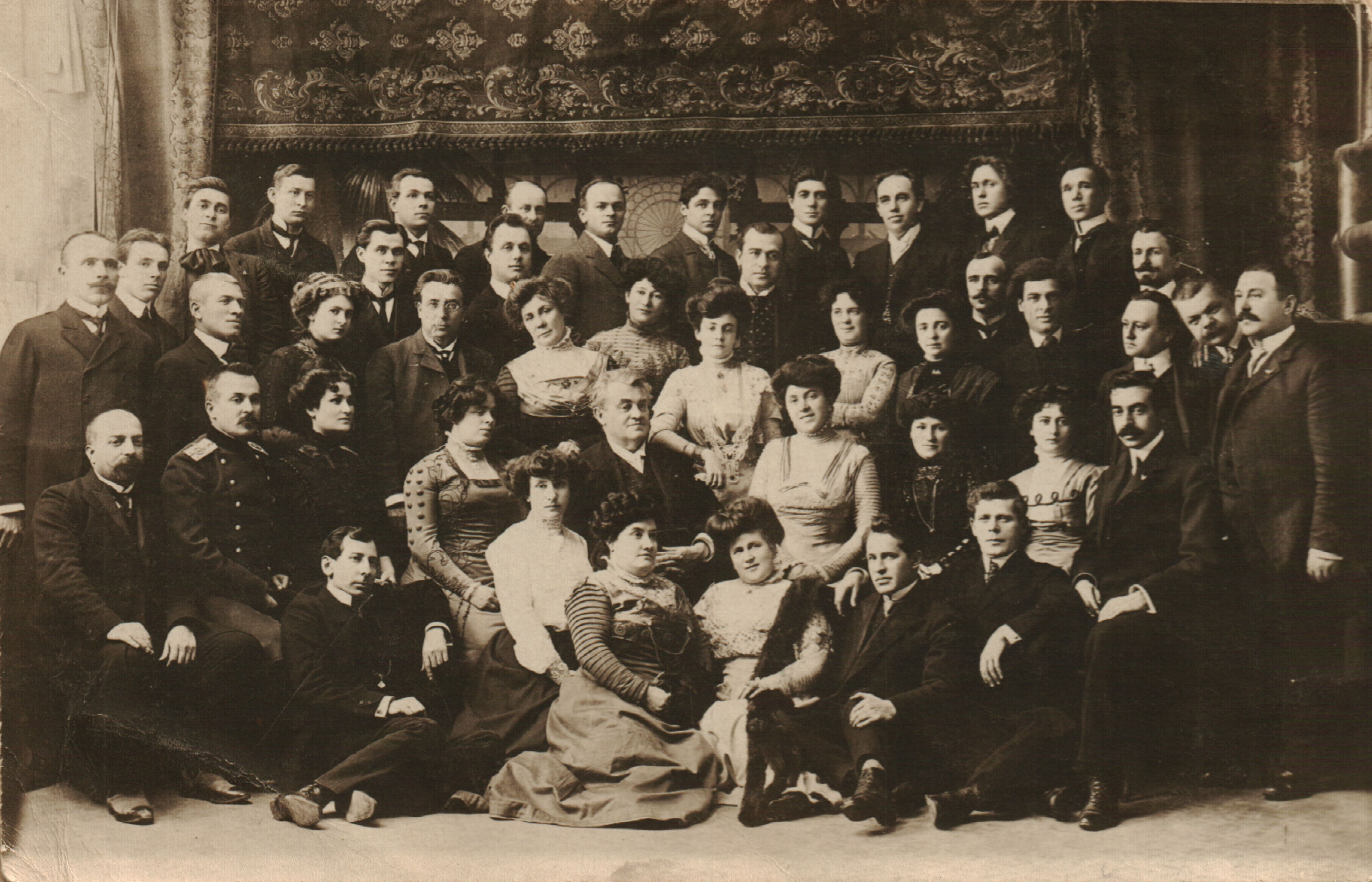 Bulgarian poet Peyo Yavorov.